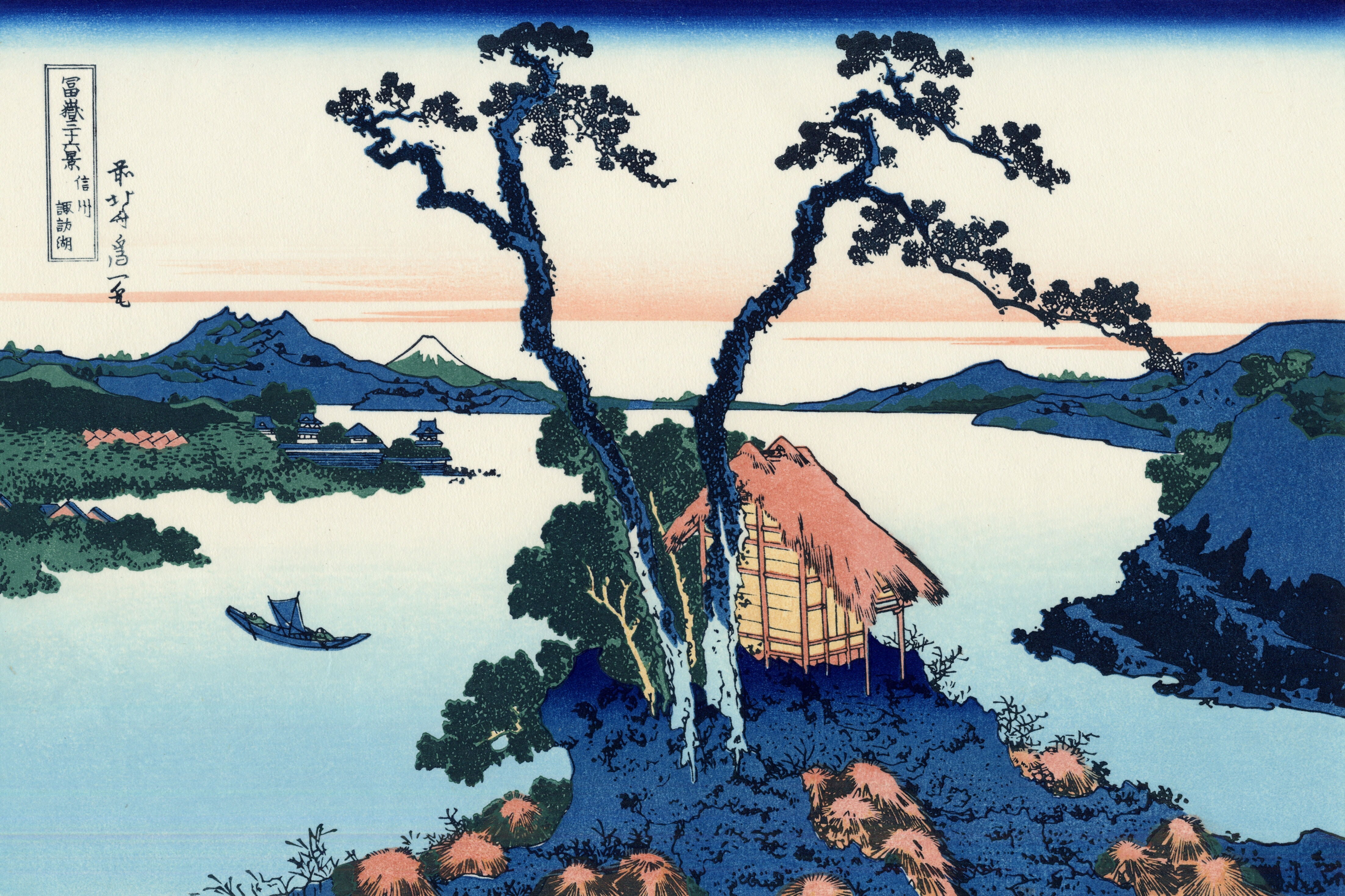 Part of the series Thirty-six Views of Mount Fuji, no. 44, 8th additional woodcut.